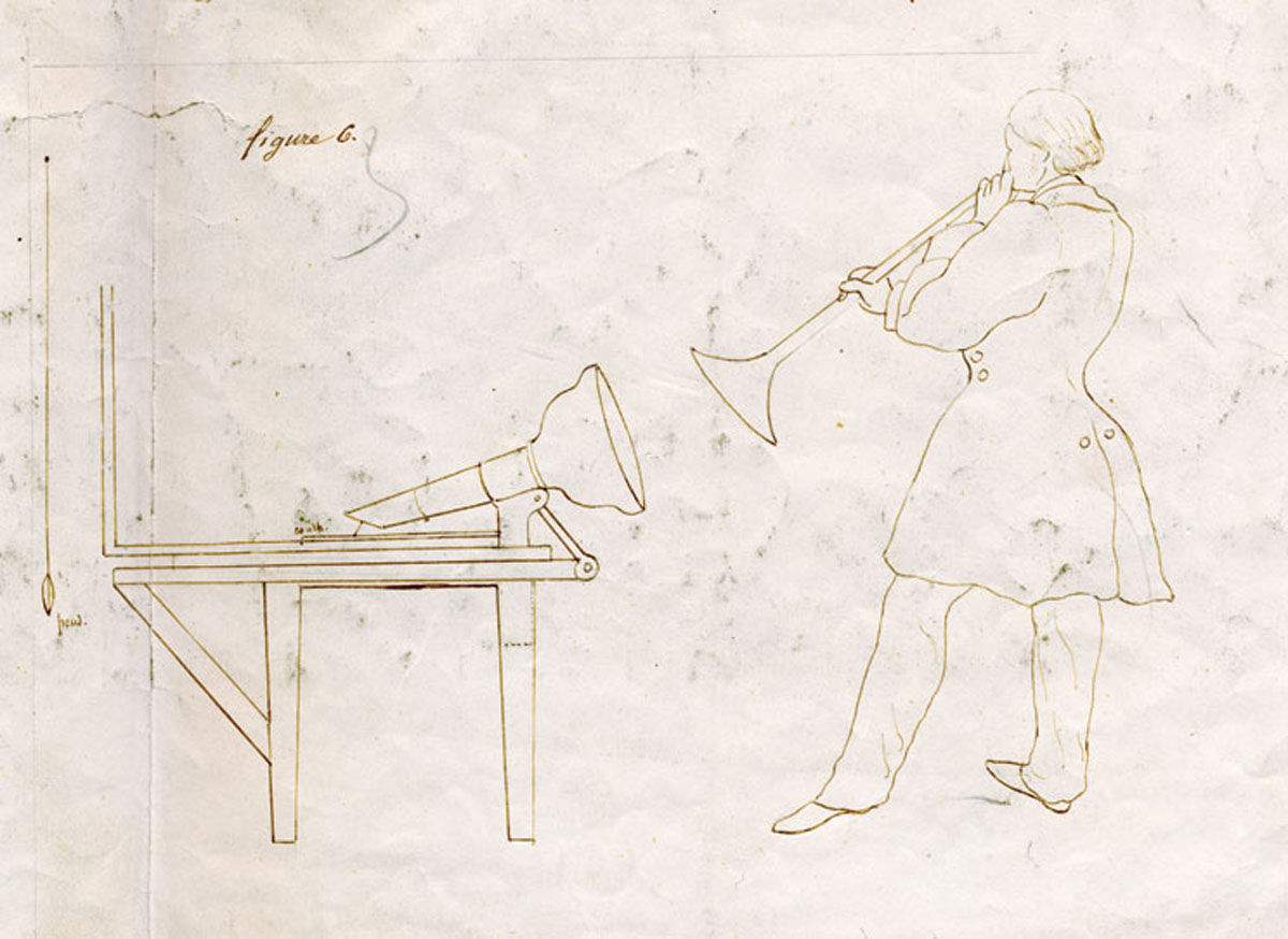 A drawing of a phonautographic recording session.